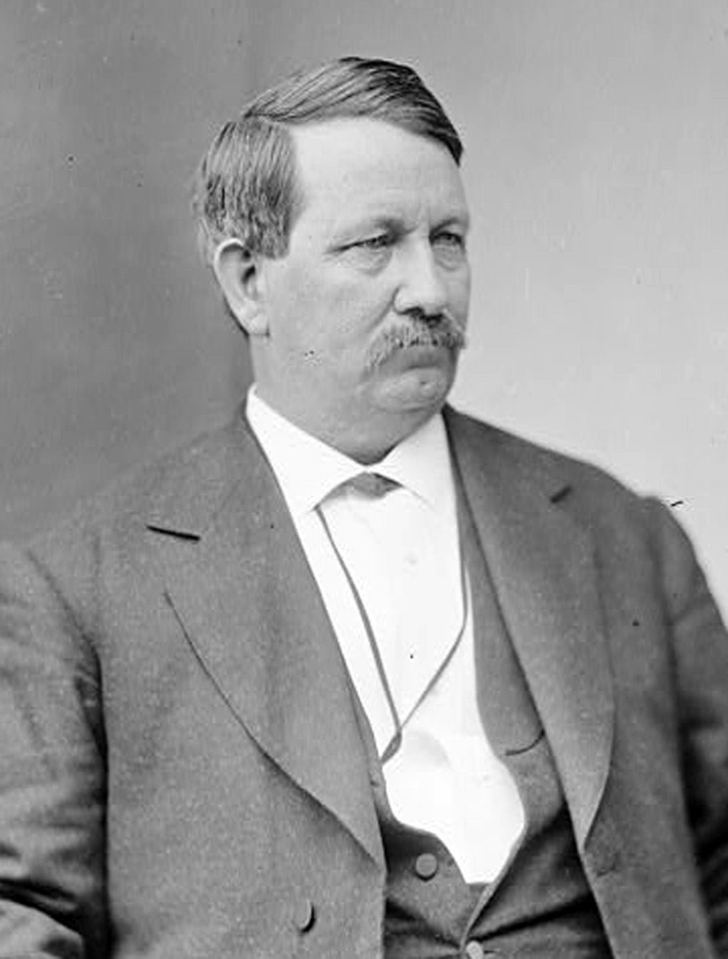 Jordan E. Cravens, US Representative from Arkansas